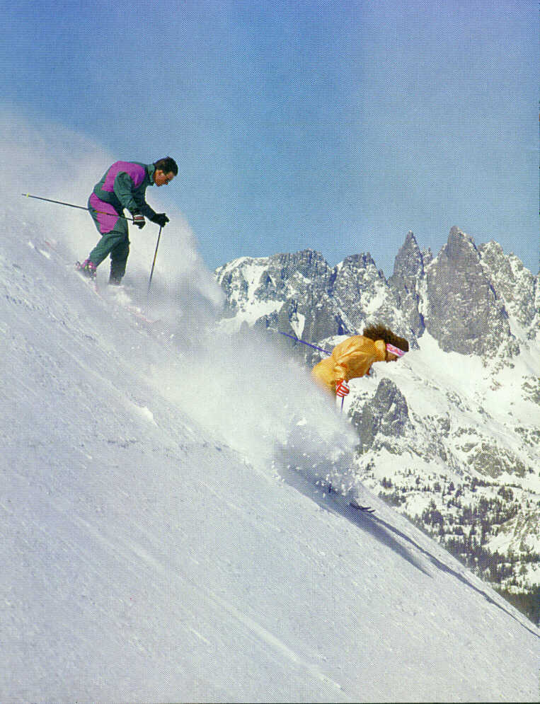 Skiers coming down Wipeout Chutes under Chair 23 at Mammoth Mountain after a fresh snow. Note Minarets in background.